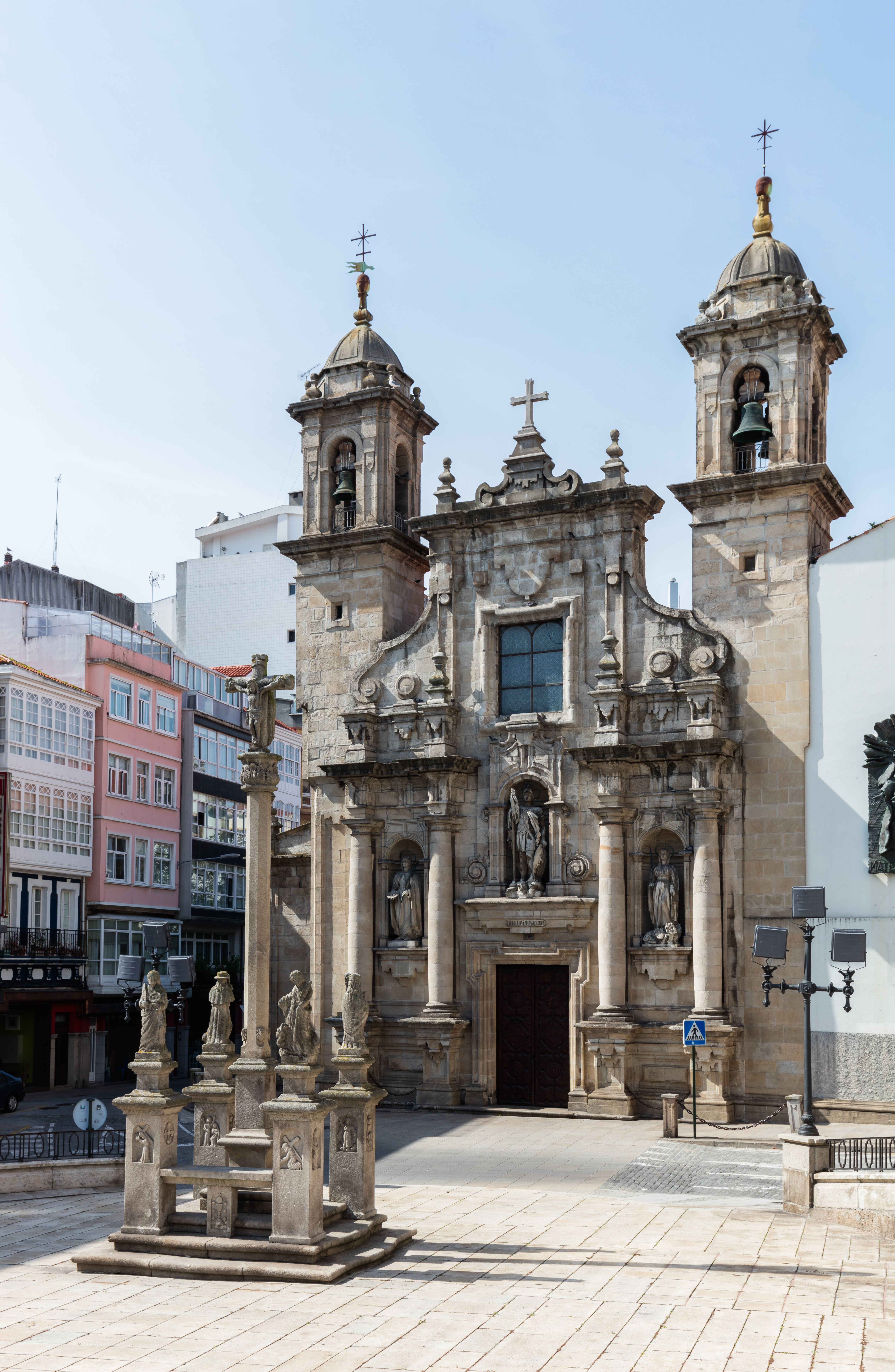 St George's church, La Coruña, Spain